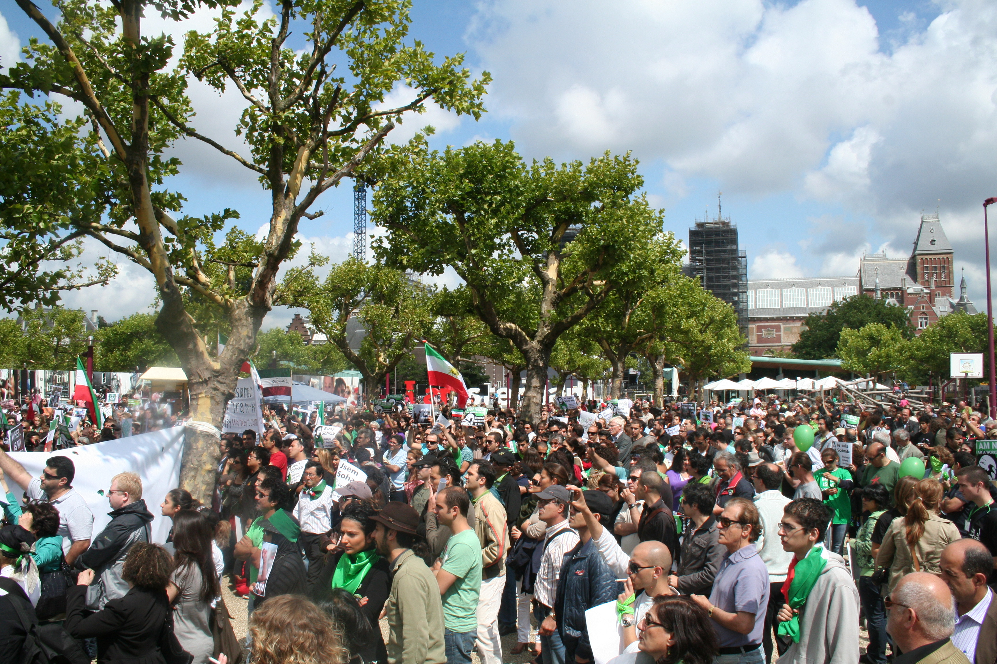 United4Iran, Holland's Persian Community's Demonstration Amsterdam, 25 July 2009 Photo by Pejman Akbarzadeh